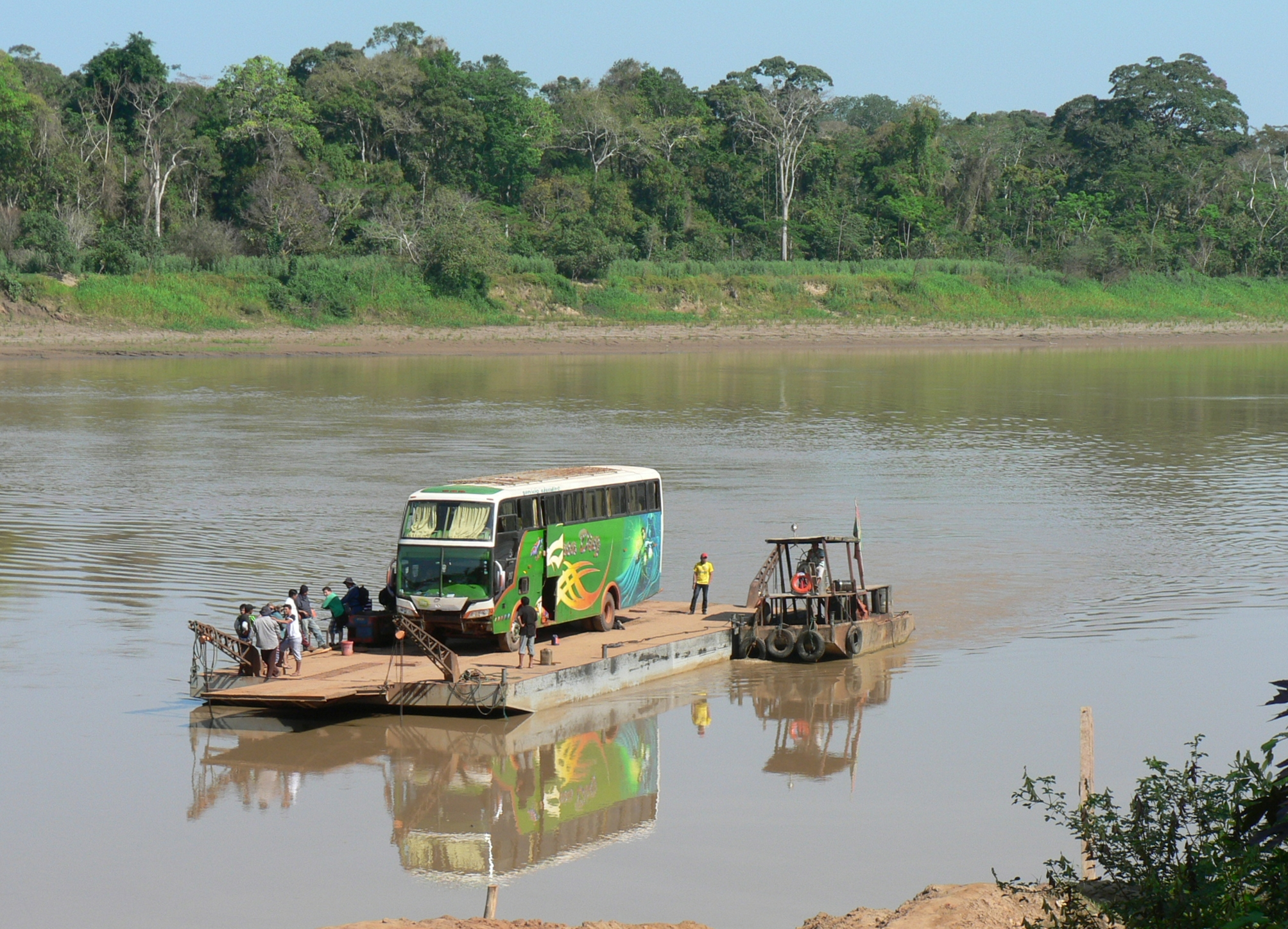 Ferryboat on the río Beni between Pando and Beni in Bolivia on ruta 13.